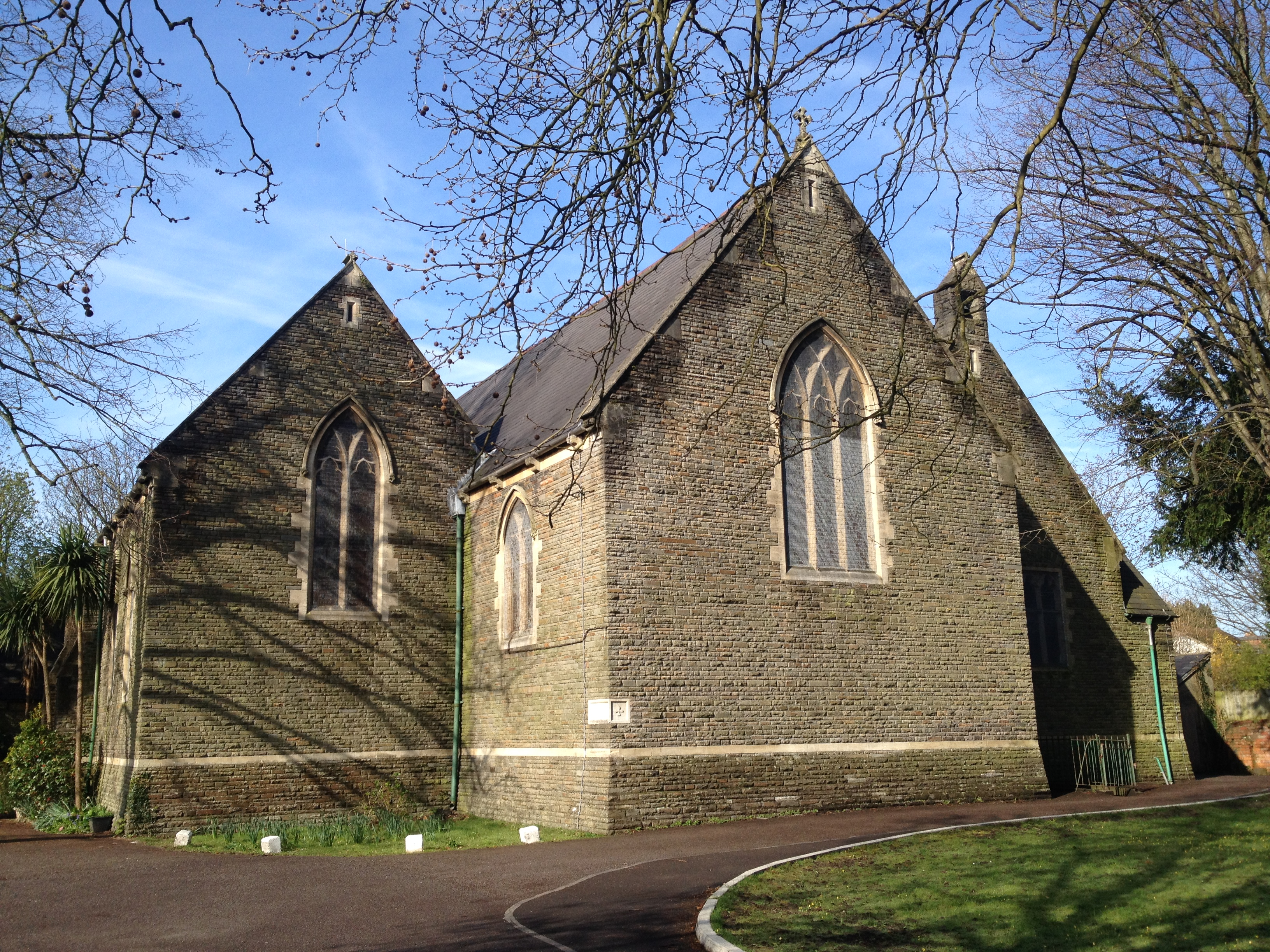 St Catherine's Church, King's Road, Riverside, Cardiff